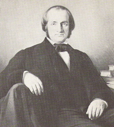 Constantin Heger|Constantin Georges Romain Heger (1809 – 1896) Belgian teacher of the Victorian era.